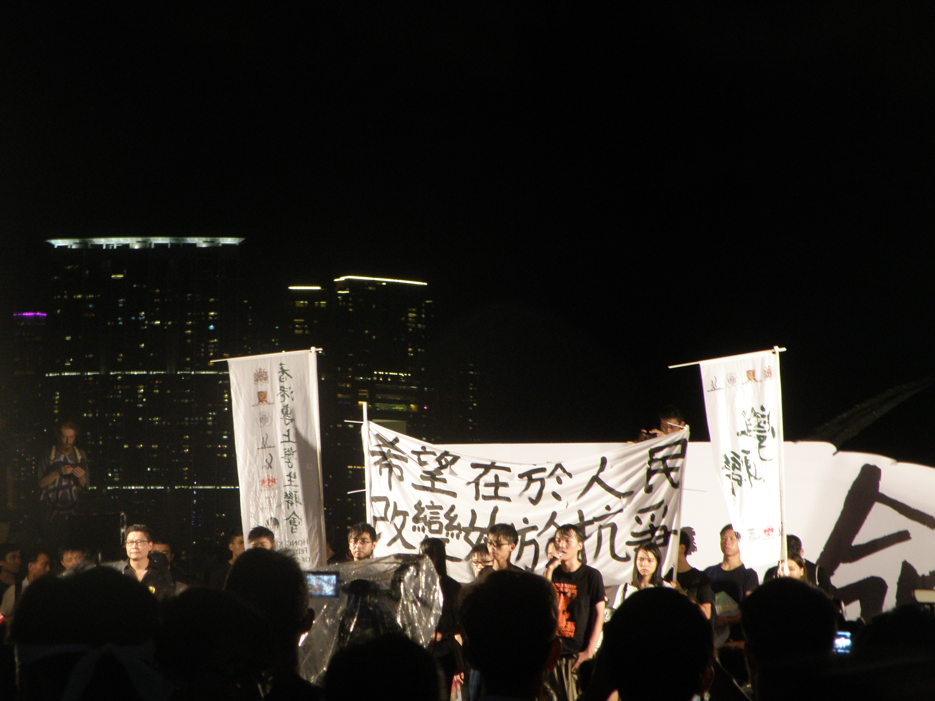 Assembly oppose the decision of 2017 Hong Kong Chief Executive election method made by Standing Committee of the National People's Congress of People's Republic of China.